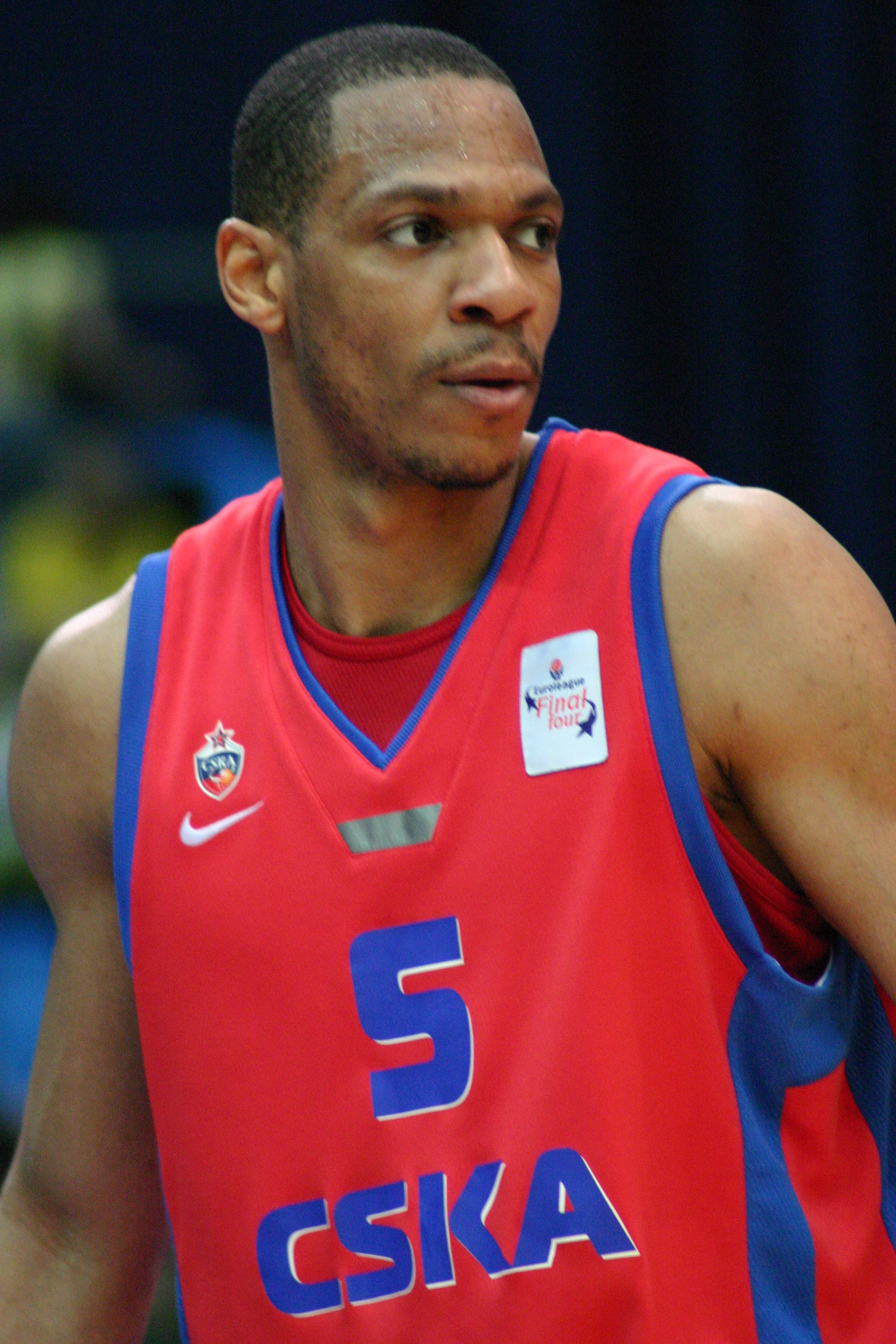 Marcus Brown Article